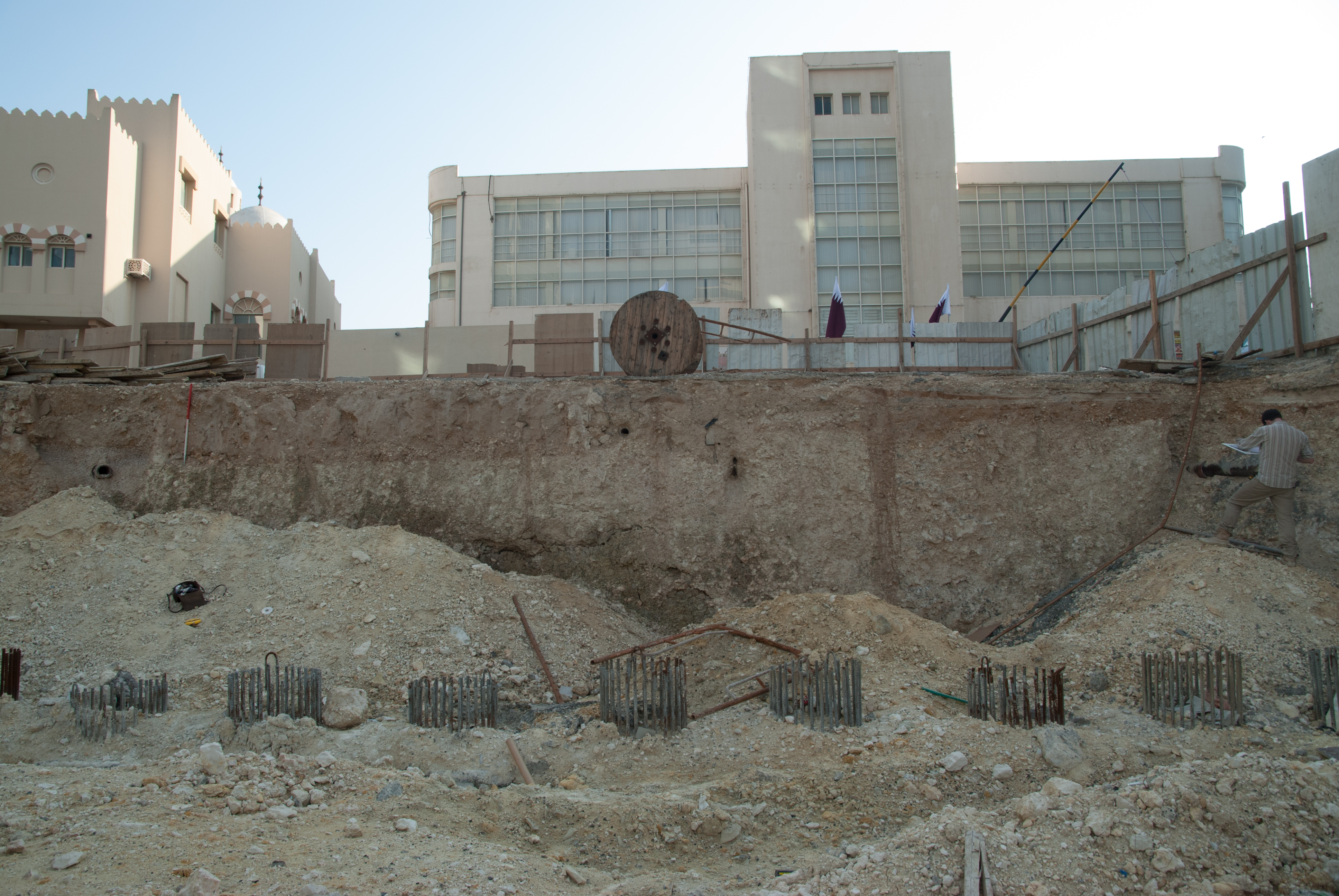 Excavations taking place in Doha. Organized by the Origins of Doha project.